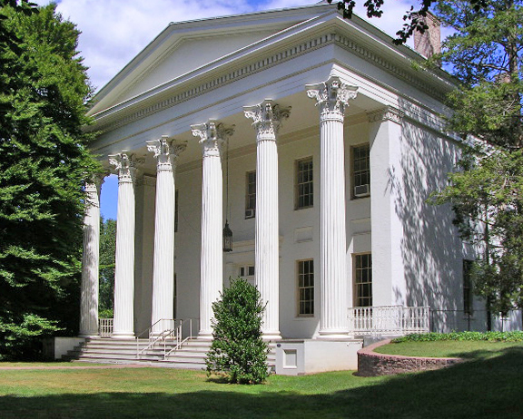 Description:The Russell House — Wesleyan University, Middletown, Connecticut. Neoclassical facade with Corinthian columns.